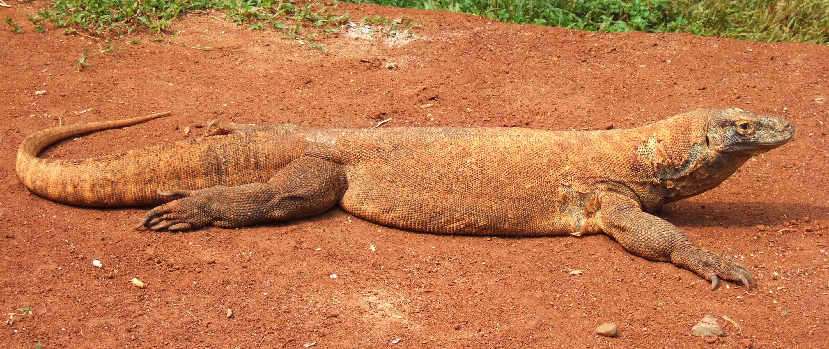 Komodo dragon, Varanus komodoensis (Ragunan Zoo, Jakarta, Indonesia)